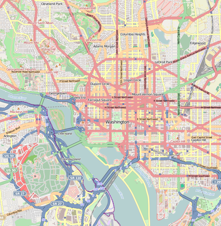 This map of Washington D.C. was created from OpenStreetMap project data, collected by the community. This map may be incomplete, and may contain errors. Don't rely solely on it for navigation.